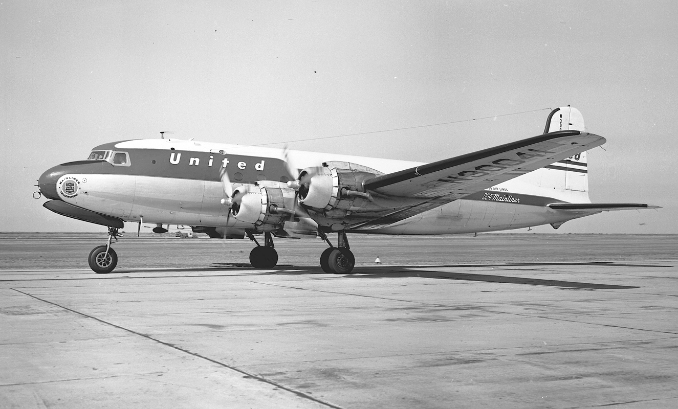 Douglas DC-4 N30041